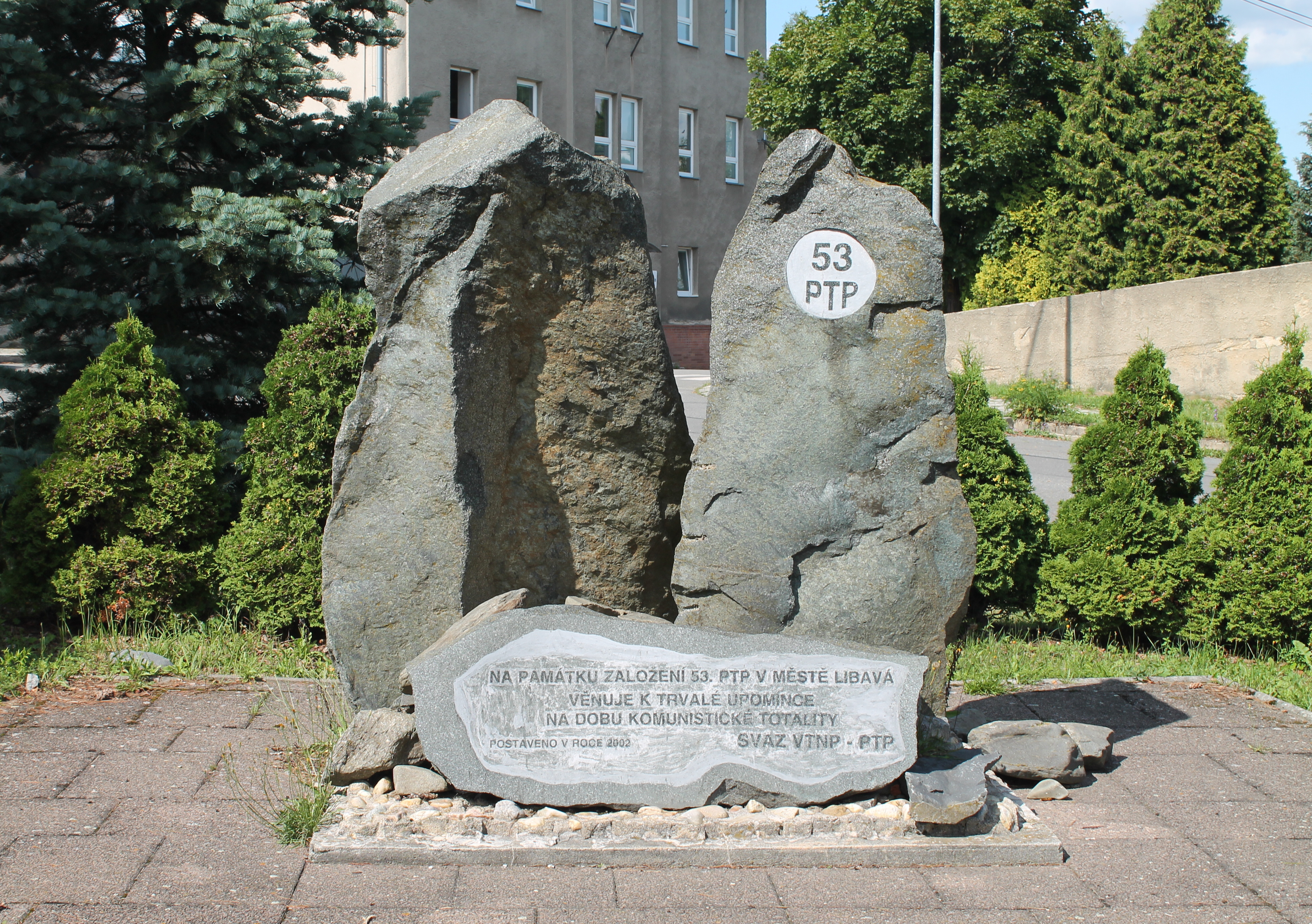 Město Libavá, Olomouc District, Czech Republic